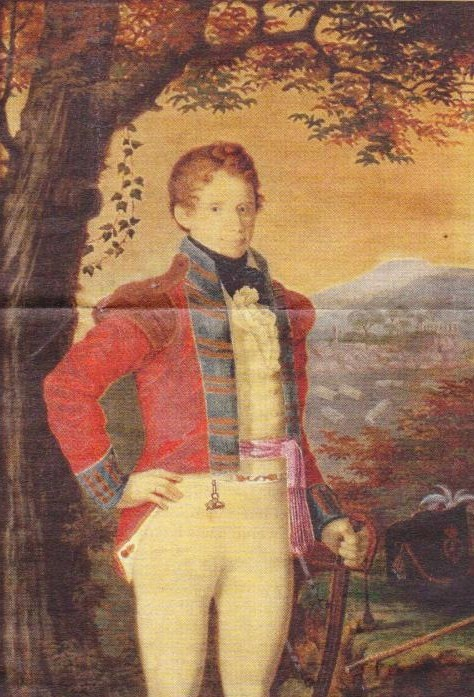 Georg Wilding Fürst von Butera Radali